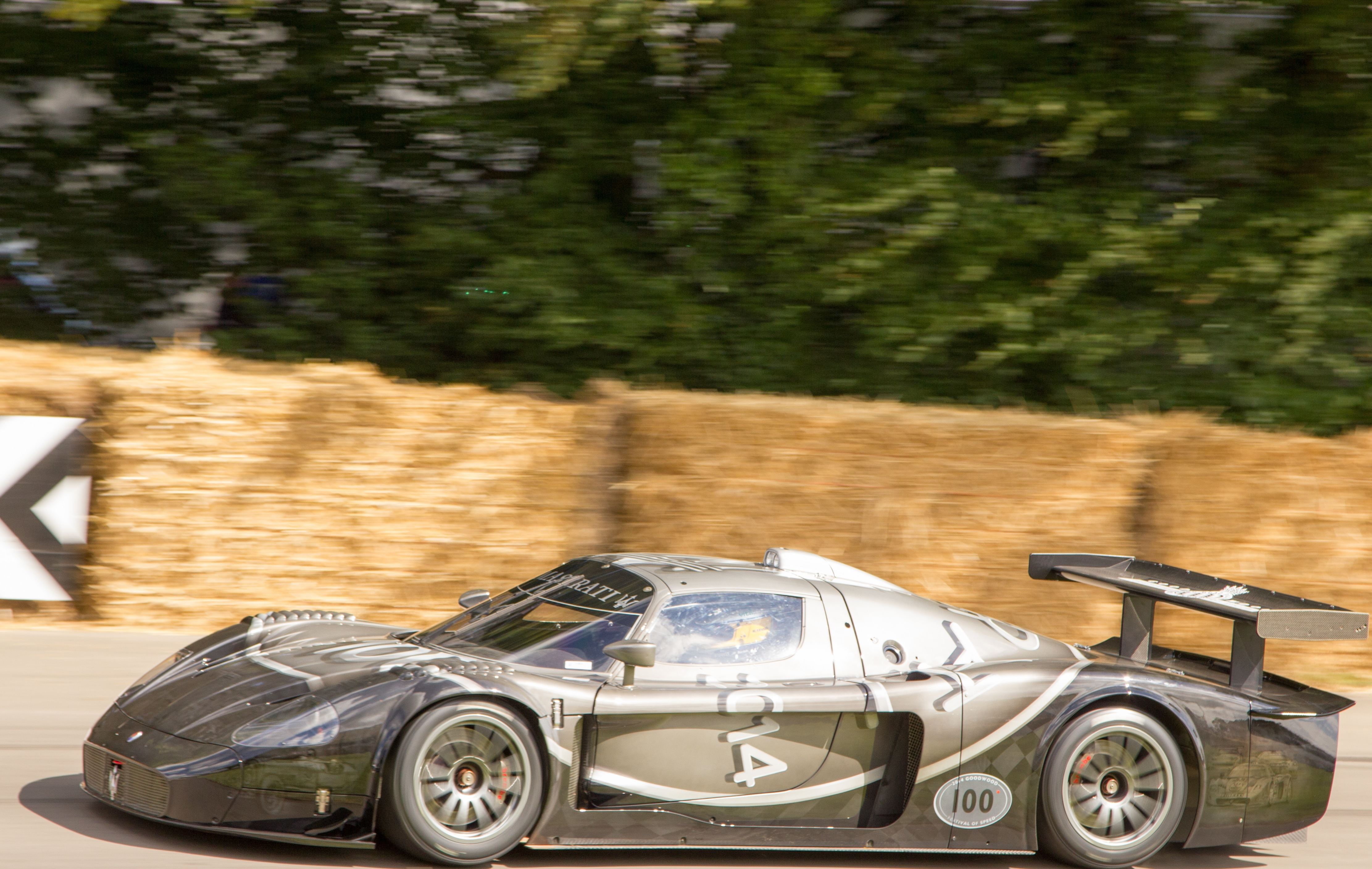 The special edition of the Maserati MC12 - the 2014 Cent 100, driven by Michael Bartels at the 2014 Goodwood Festival of Speed. The car will have a limited production run of 50 road cars and 25 race cars. Built to celebrate Maserati's 100th birthday.